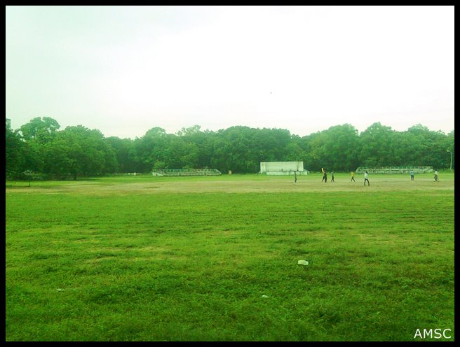 This is college's cricket ground during rainy season, usually students bring their sports gear to play cricket. It is about 8000 meter square in area.